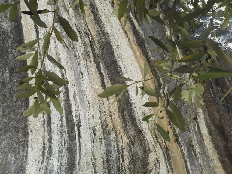 This is a photo of a monument which is part of cultural heritage of Italy.